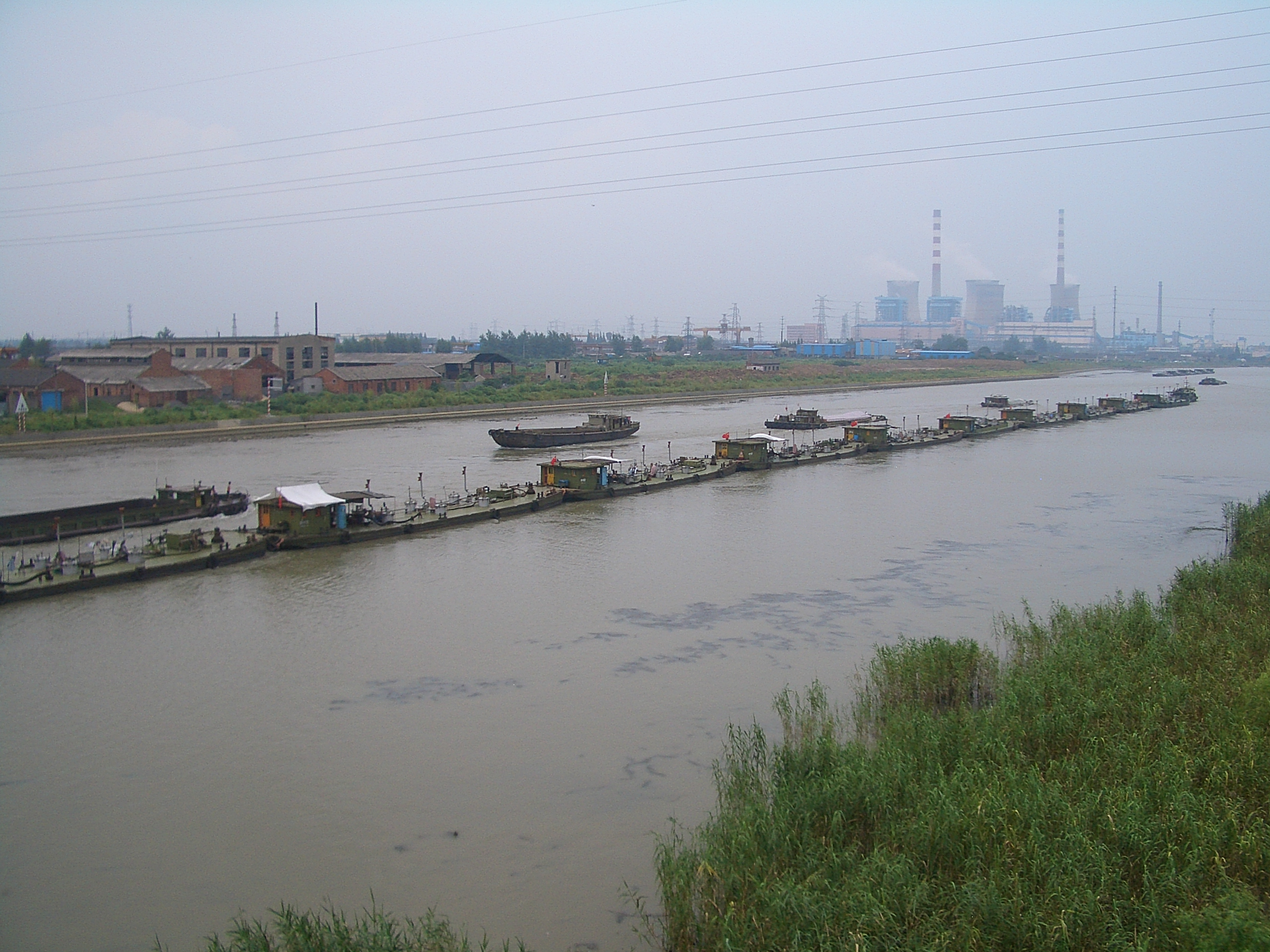 Boat traffic on the Grand Canal of China east of Yangzhou, seen from the Wanfu Rd. (X107) bridge (Guangling District)